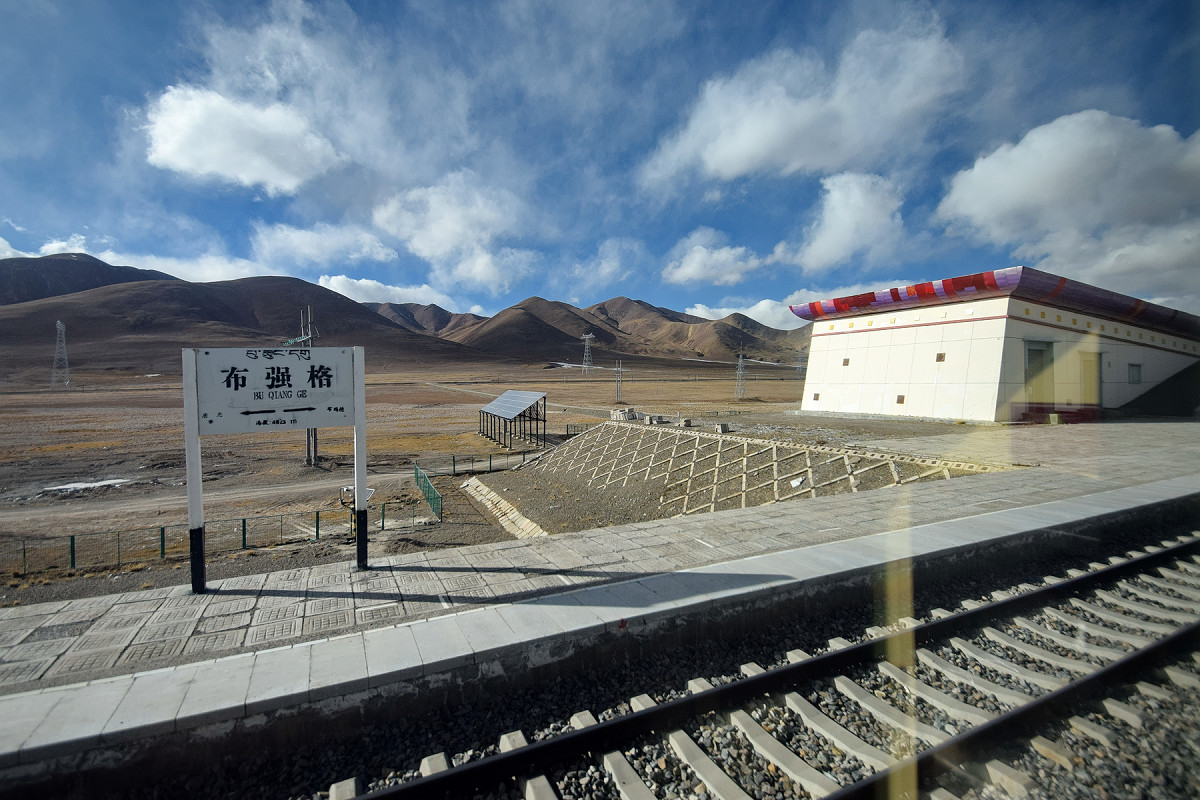 Buqiangge Railway Station, Qinghai-Tibet Railway (altitude 4823m)